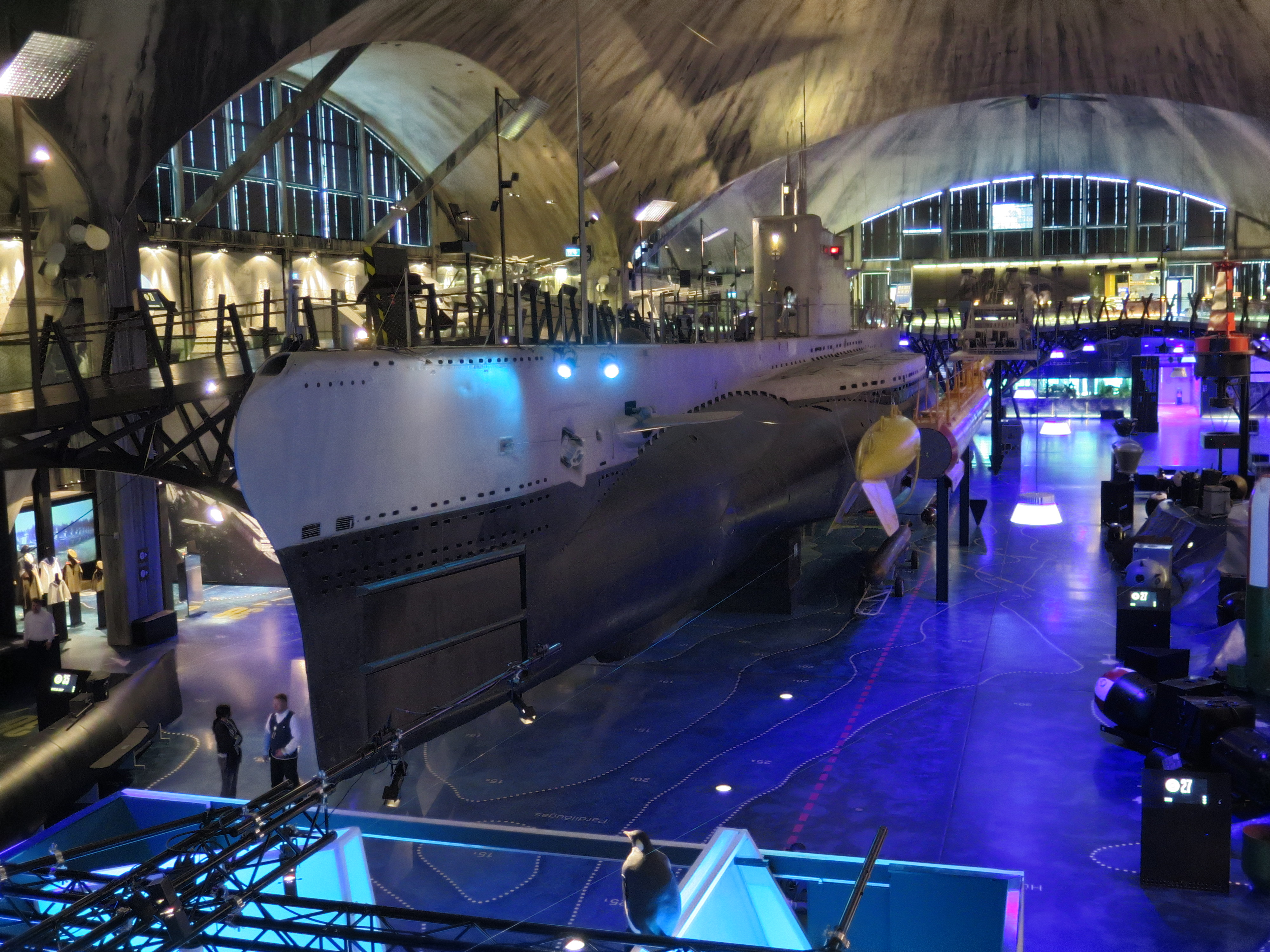 Taken at the Estonian Maritime Museum - Seaplane Harbour (Lennusadam)